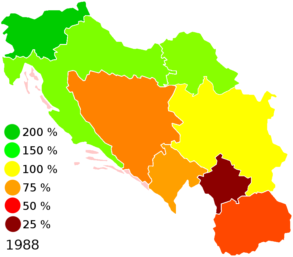 Average strength of yugoslav economy as a deviation from the main (Yugoslavia = 100 %) indicator. The source for 1947, 1965 and 1975 is Ekonomska Politika no. 1370 (3 July 1978), page 18, for 1988 Lampe's book "Yugoslavia as a history"